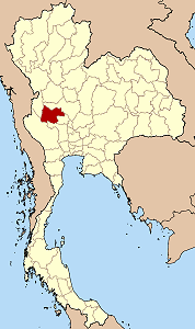 Map of Thailand highlighting Uthai Thani province